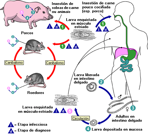 Trichinellosis is acquired by ingesting meat containing cysts (encysted larvae) The number 1 of Trichinella. After exposure to gastric acid and pepsin, the larvae are released The number 2 from the cysts and invade the small bowel mucosa where they develop into adult worms The number 3 (female 2.2 mm in length, males 1.2 mm; life span in the small bowel: 4 weeks). After 1 week, the females release larvae The number 4 that migrate to the striated muscles where they encyst The number 5. Trichinella pseudospiralis, however, does not encyst. Encystment is completed in 4 to 5 weeks and the encysted larvae may remain viable for several years. Ingestion of the encysted larvae perpetuates the cycle. Rats and rodents are primarily responsible for maintaining the endemicity of this infection. Carnivorous/omnivorous animals, such as pigs or bears, feed on infected rodents or meat from other animals. Different animal hosts are implicated in the life cycle of the different species of Trichinella. Humans are accidentally infected when eating improperly processed meat of these carnivorous animals (or eating food contaminated with such meat).